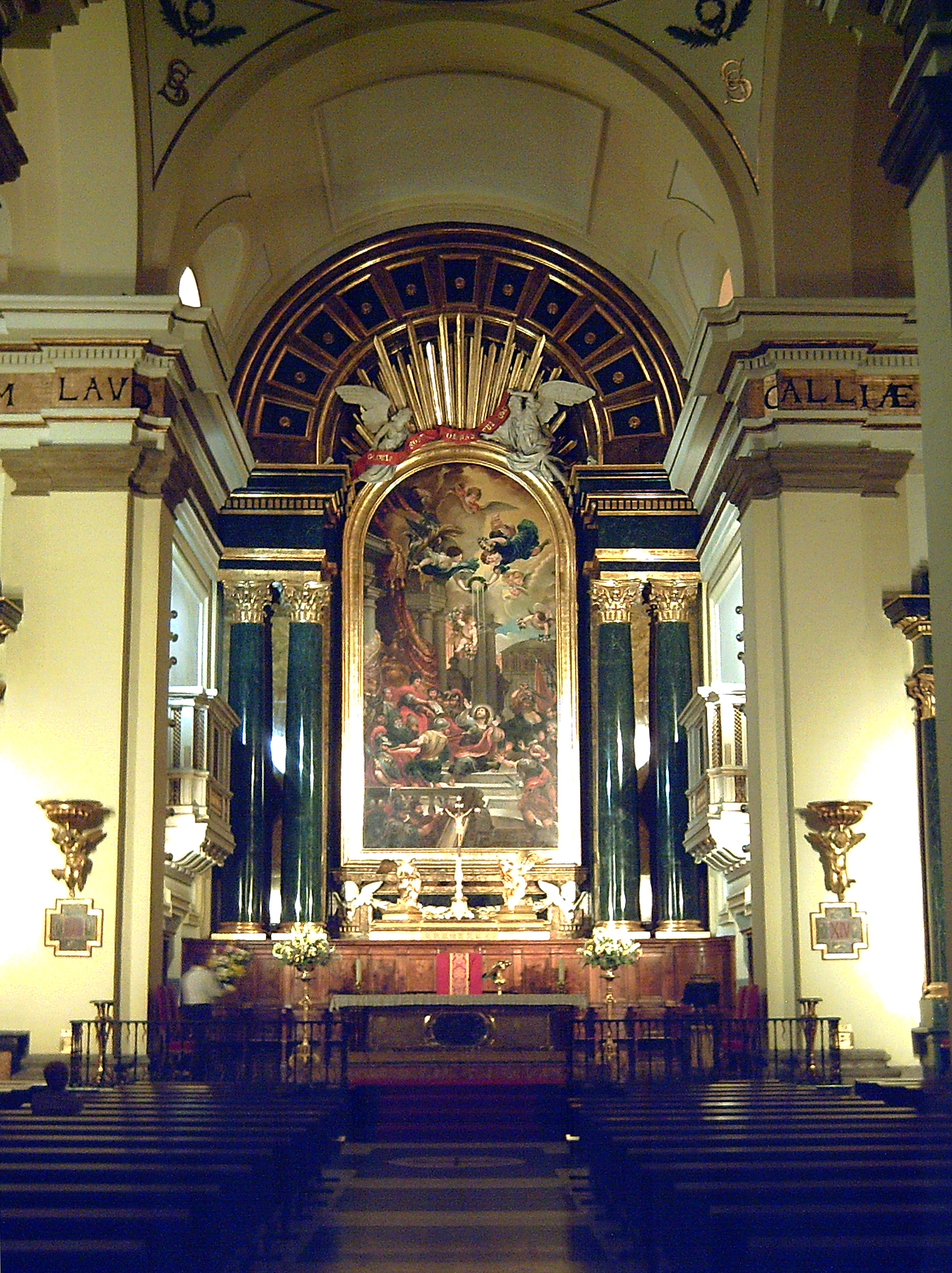 Iglesia Parroquial de San Ginés ("Parish Church of St. Genesius"), in Madrid (Spain). Projected by Juan Ruiz and built between 1645 and 1659.